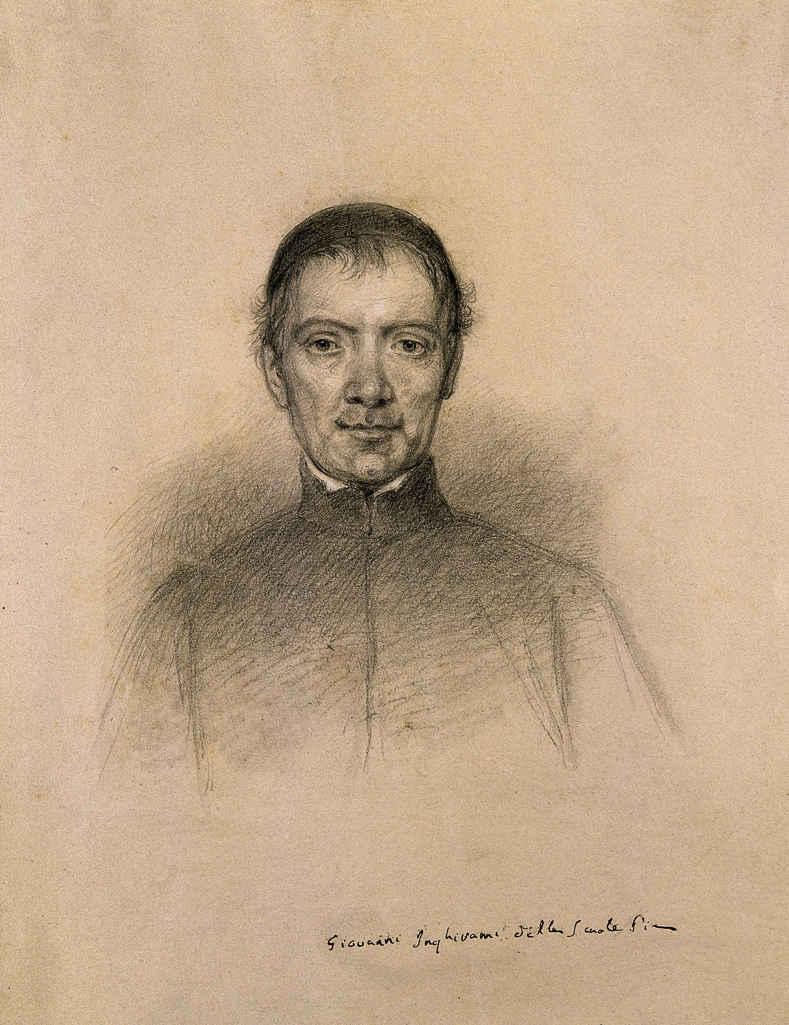 Giovanni Inghirami. Pencil drawing by C. E. Liverati, 1841. Iconographic Collections Keywords: portrait drawings; Giovanni Inghirami